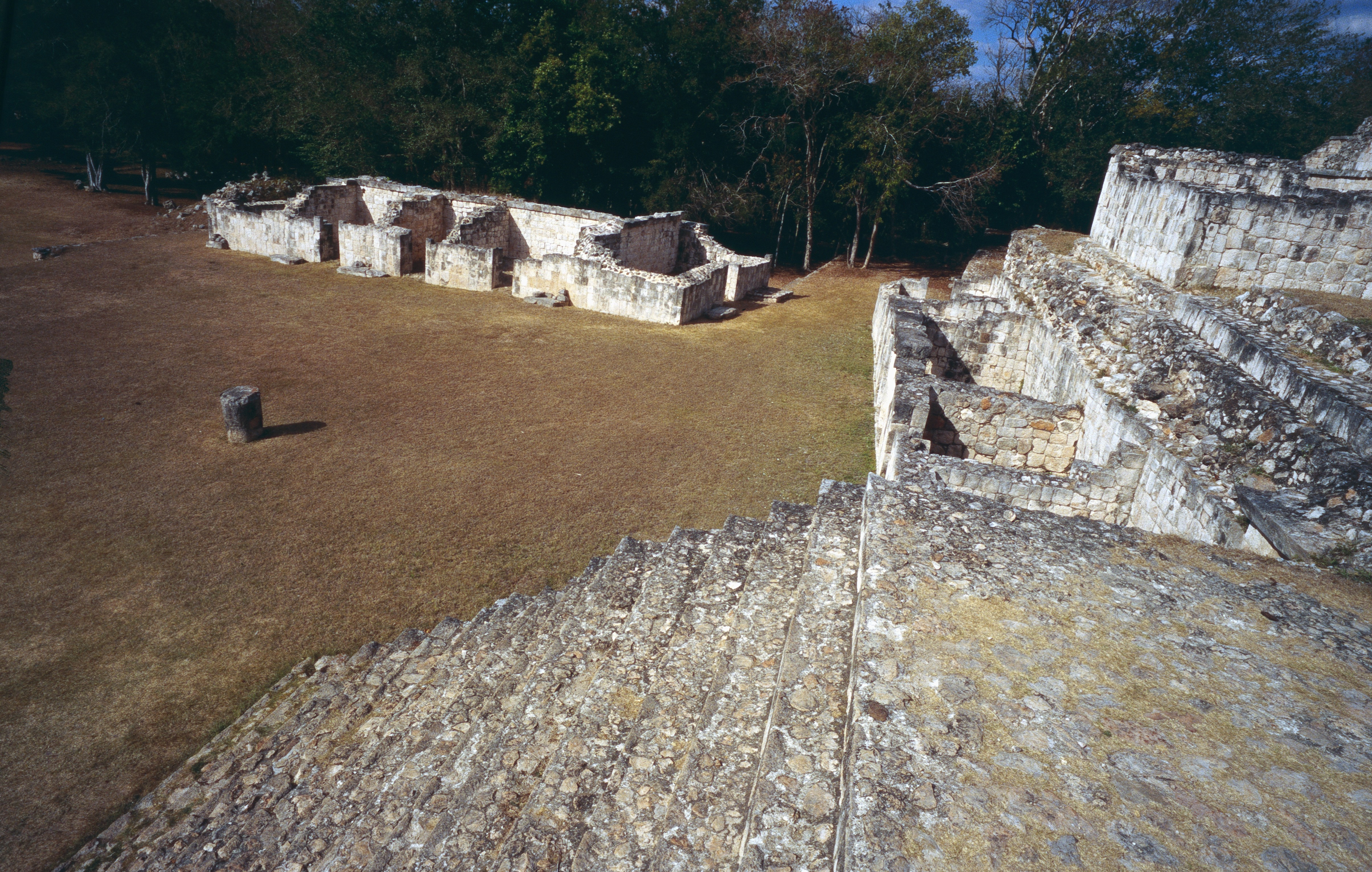 Kabah, Yucatan, Mexico: unnamed building at lowest level of East Group